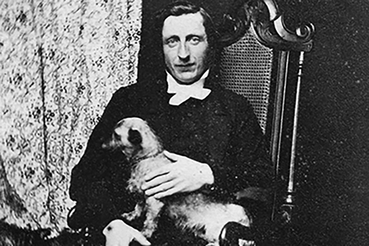 Photograph of John Charles Thring, from Uppingham School archives. Must be from the period 1859 - 1869 when Thring taught there.